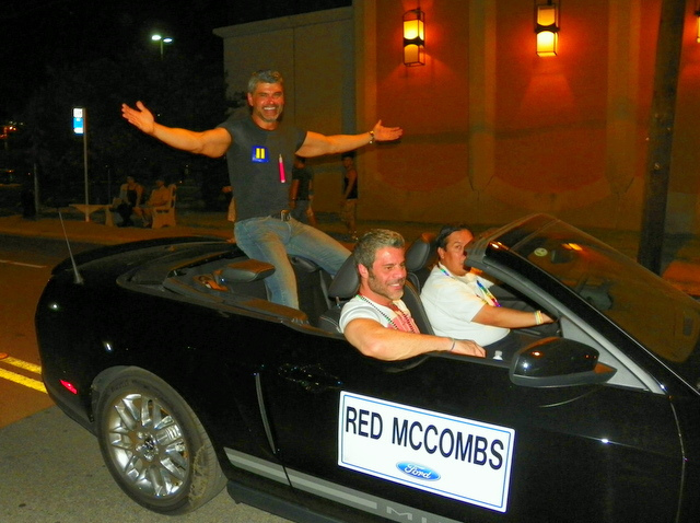 Mike Ruiz as the grand marshall of San Antonio's LGBT pride parade in 2011.